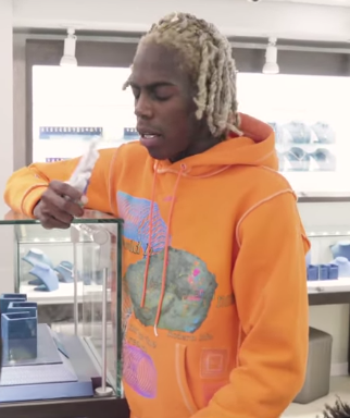 Yung Bans at the Icebox Diamonds & Watches jewelry store in Atlanta, Georgia.